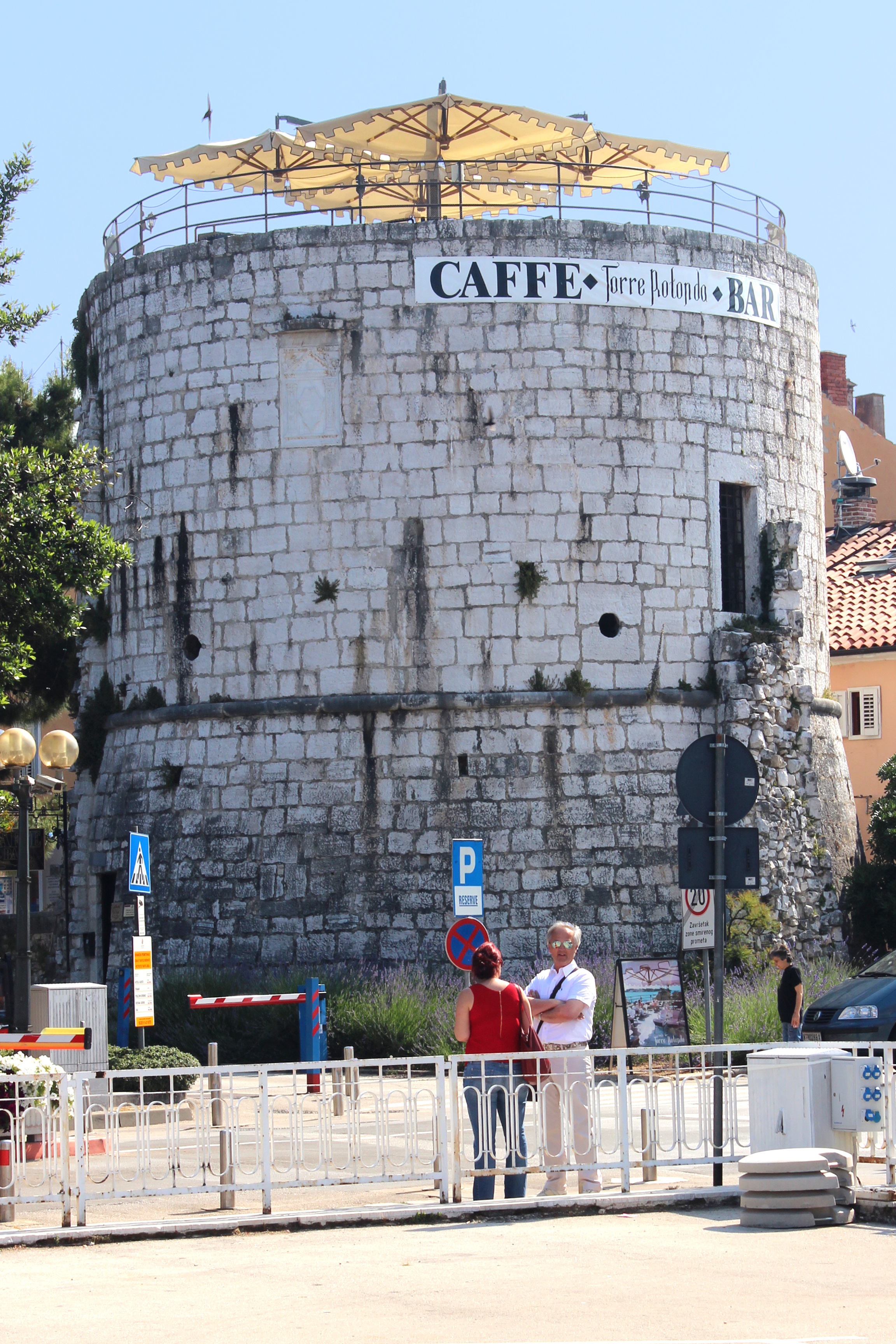 Serenissima round tower (Serenisima Kula / Torre rotondo), 1474, in Poreč, Croatia